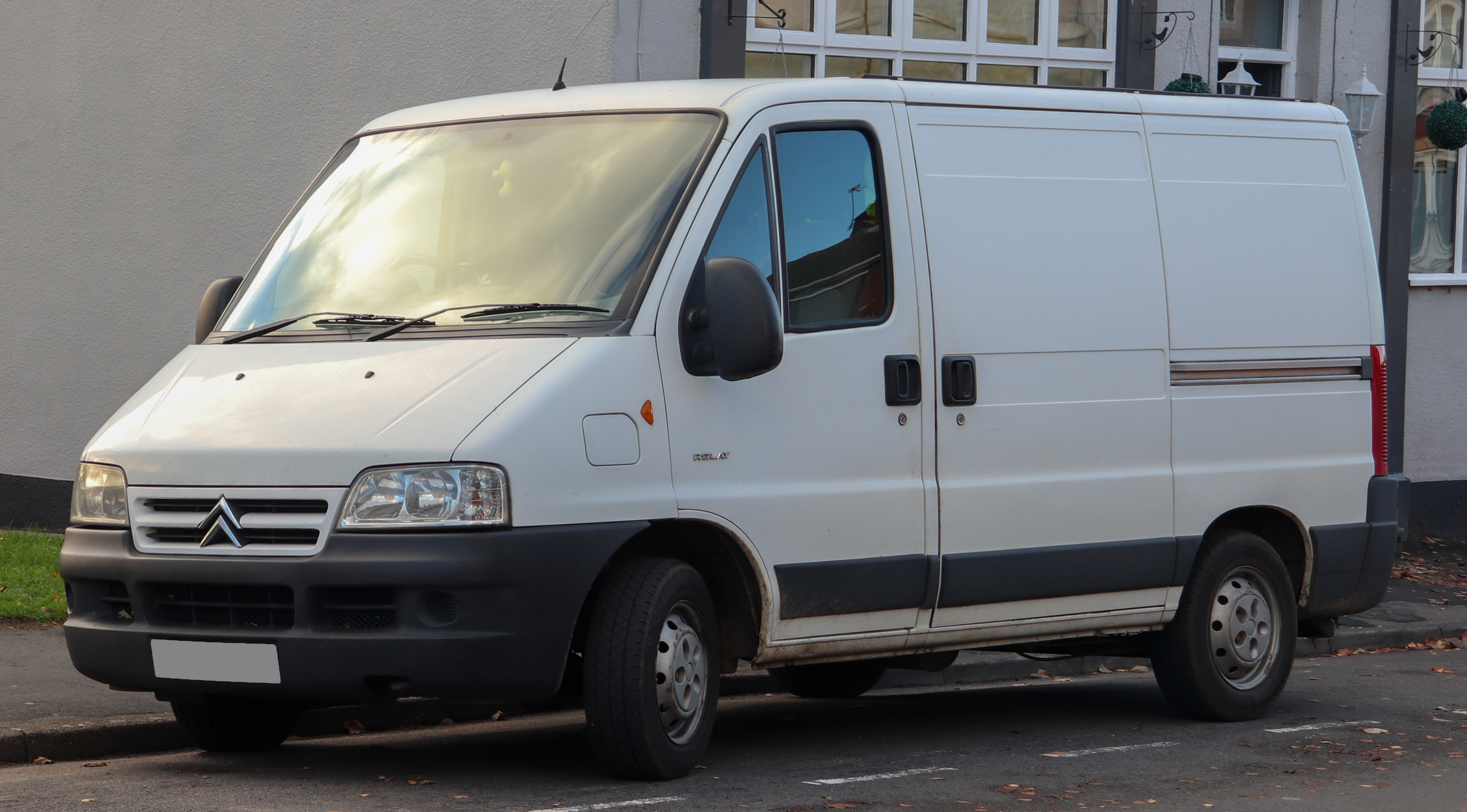 2005 Citroen Relay HDi 1100 Enterprise 2.0 Front